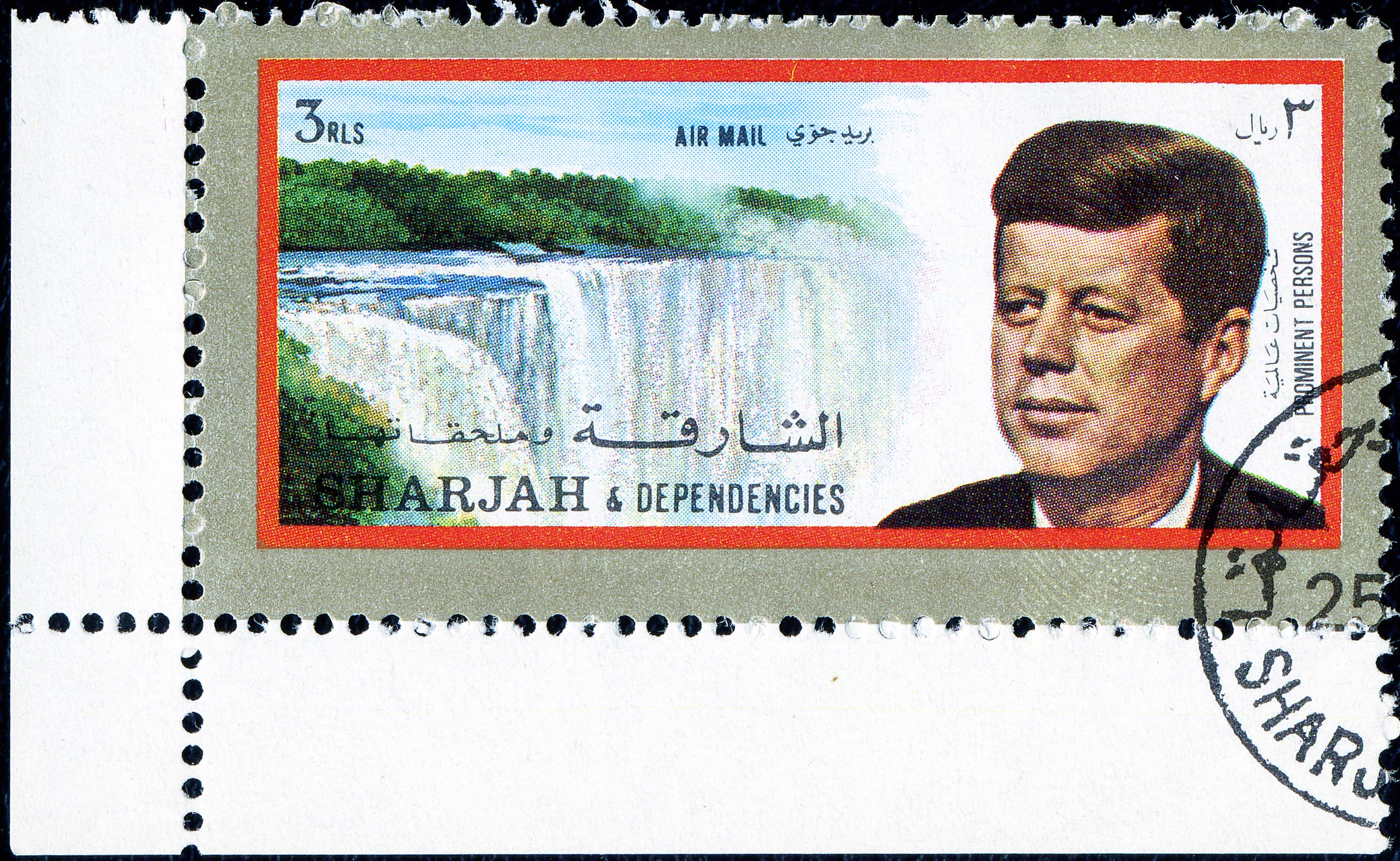 Stamp of the United Arab Emirates